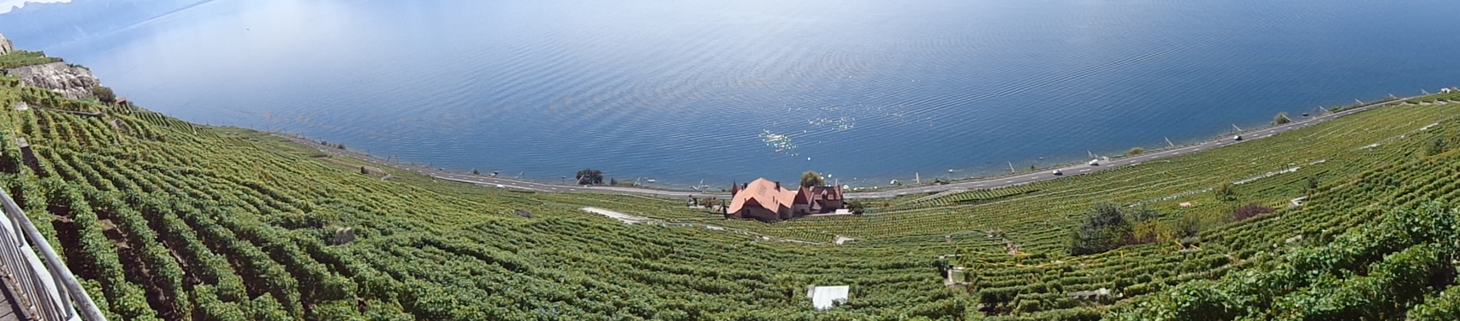 "Vigneoble du Dezaley" in Switzerland (with view on Lake Geneva and Swiss/French Alps). This Vineyard is part of the district of Lavaux-Oron, a World Heritage Site.